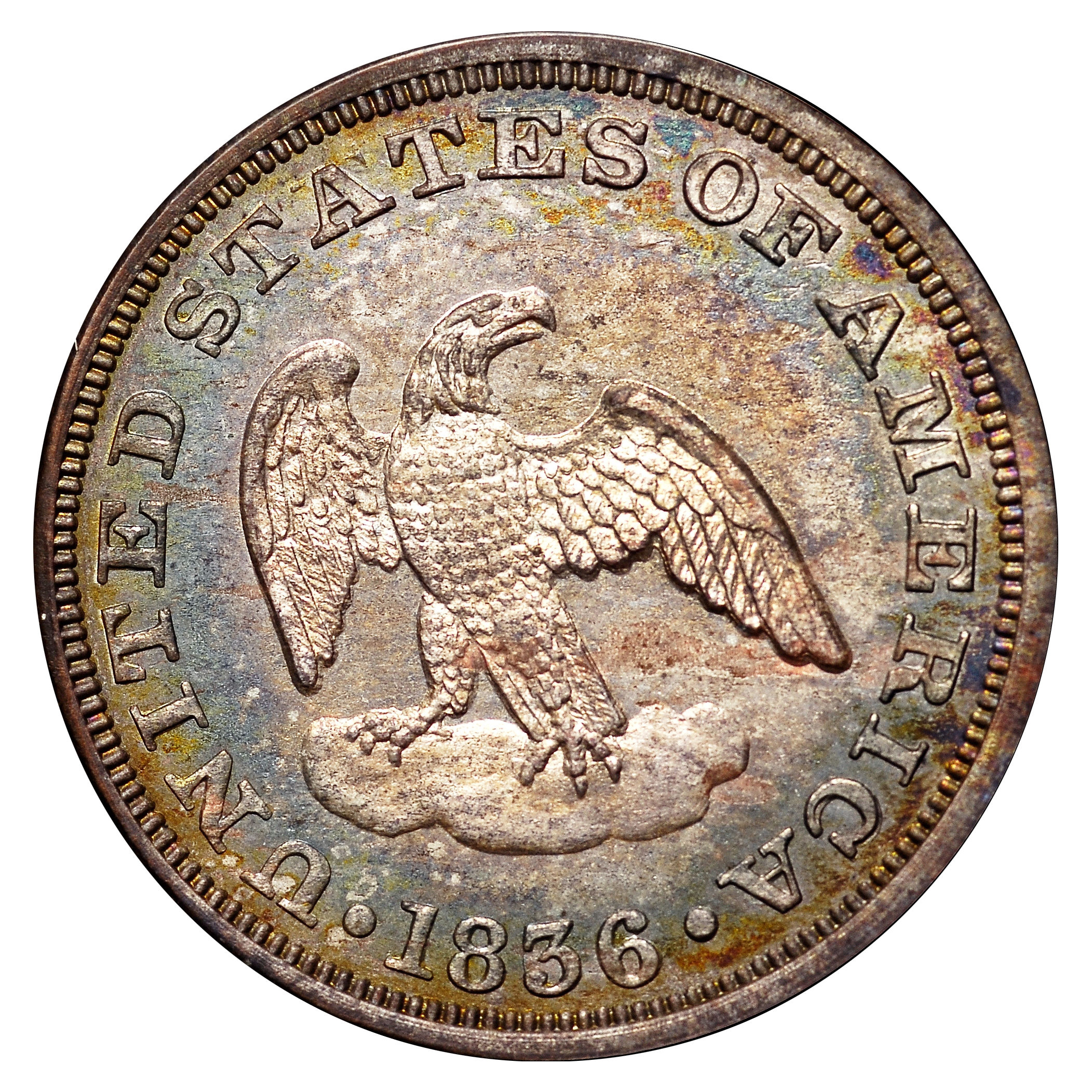 1836 P2C Two Cents (Judd-52) (obv) (1184-3908)